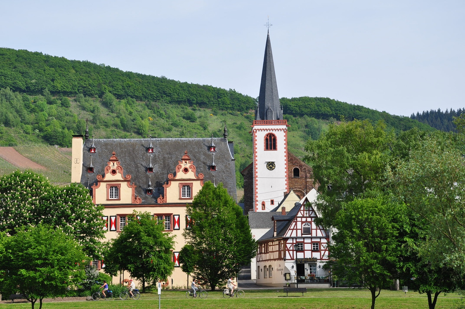 Bruttig-Fankel as seen from the river Moselle (Cochem-Zell district, Rhineland-Palatinate, Germany). The image shows a part of Bruttig.